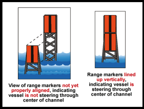 Training picture of how ranges (US) / navigational transits (UK) used